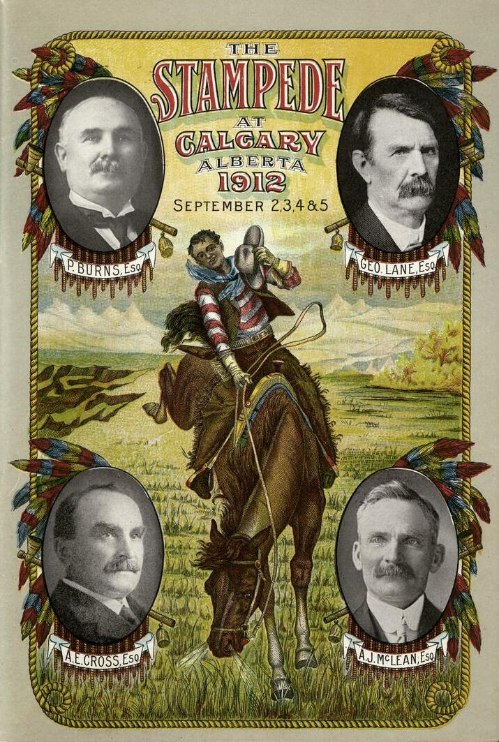 Program for 1912 Calgary Exhibition and Stampede, front cover